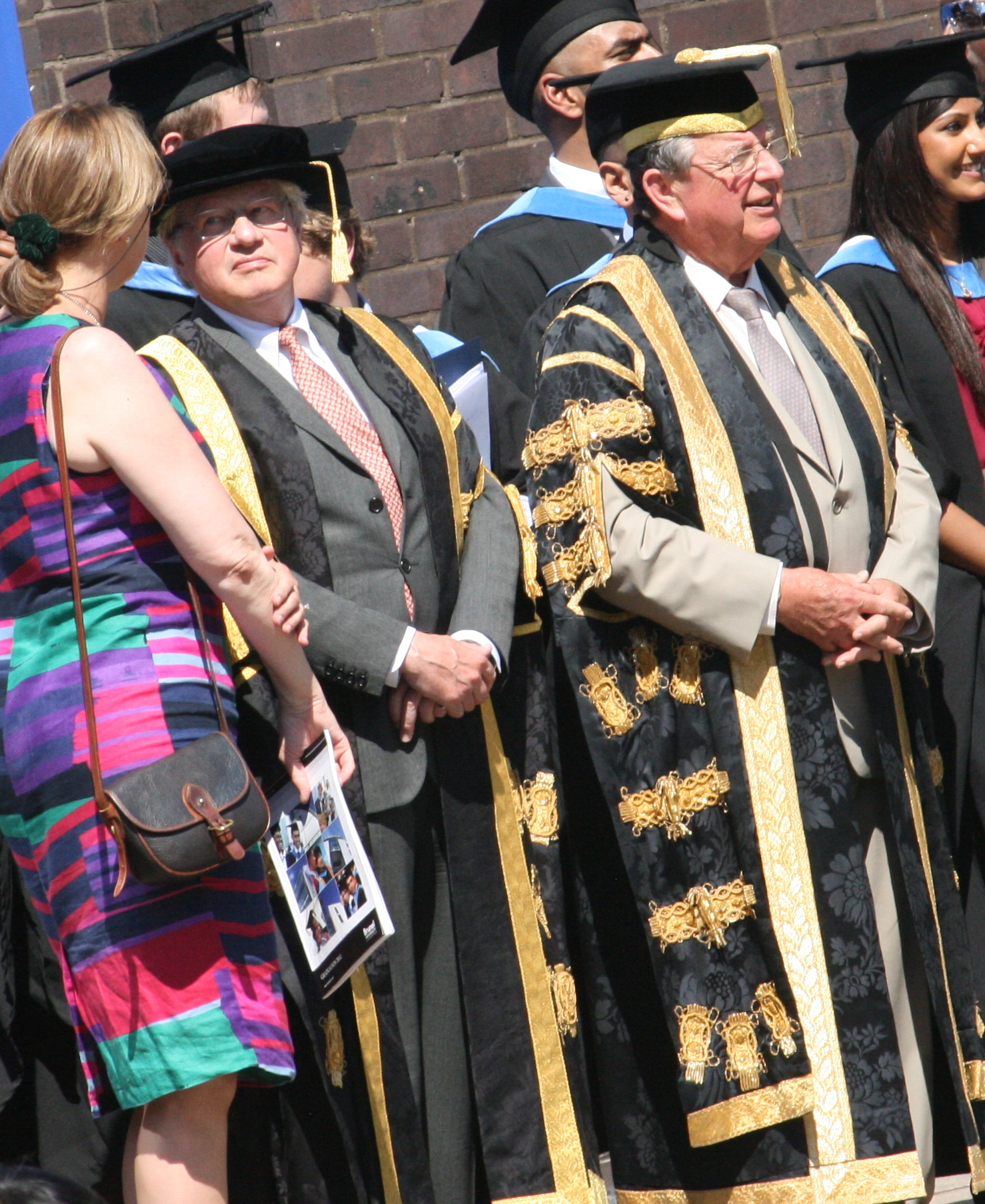 Chancellor (John Wakeham, Baron Wakeham) and Vice-Chancellor (Christopher Jenks) of Brunel stand ready with some graduates